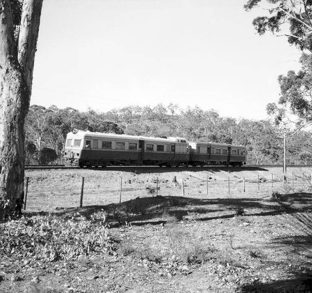 A WAGR ADE ("Governor") class railcar (left) towing a purpose built ADT class trailer (right) while operating a service from Katanning to Perth, along the Eastern Railway near Clackline, Western Australia .